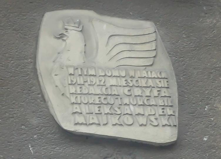 Plaque at Ogarna 20/21 Street in Gdańsk. Here in 1911-1912 localisation newspaper office of Griffin. Periodical for Cashubian matters. Newspaper office several times changed localisations.